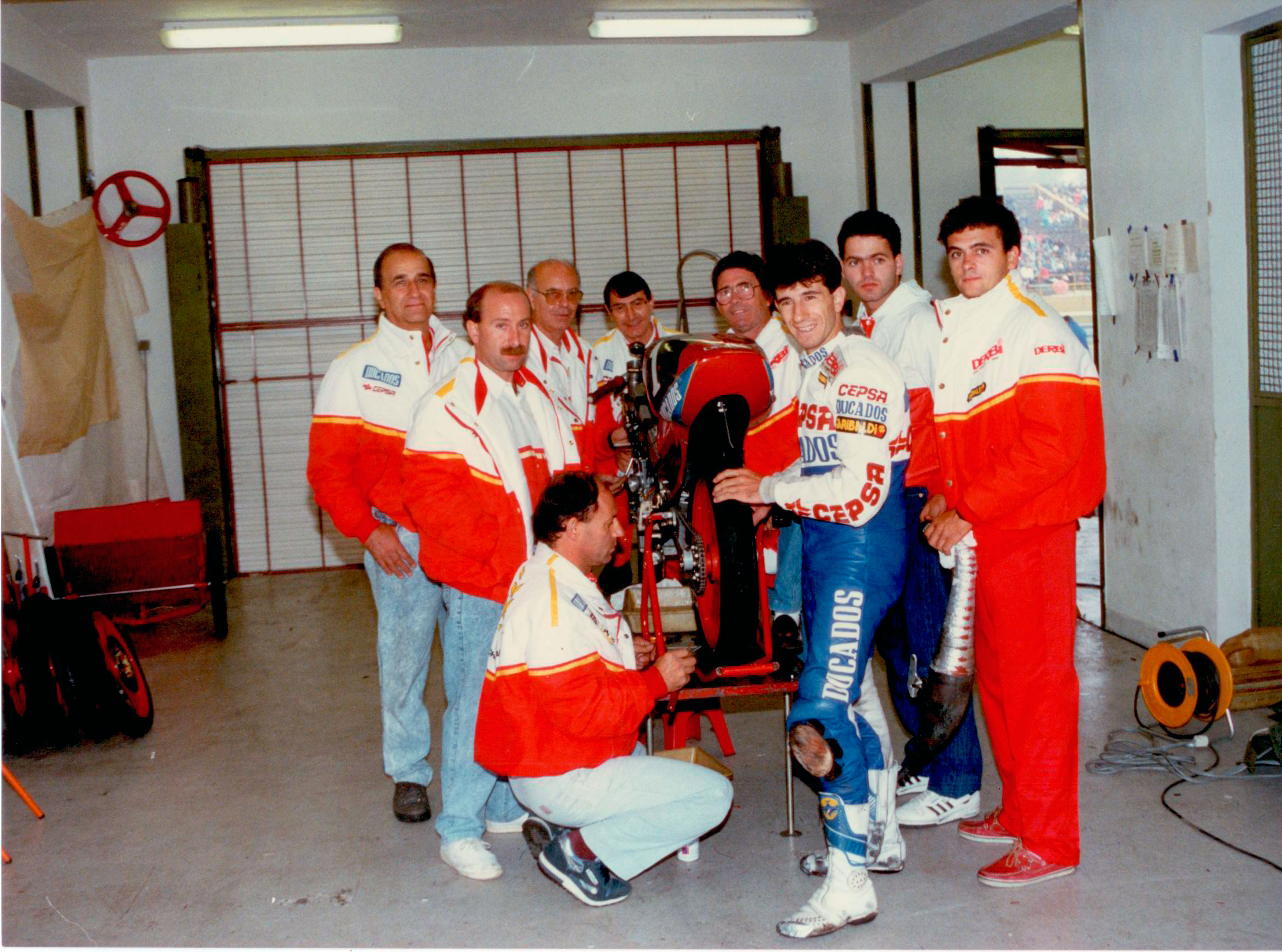 Paco Tombas, Aspar and the rest of the Derbi Racing Team working on the 125cc bike of Aspar, in 1989